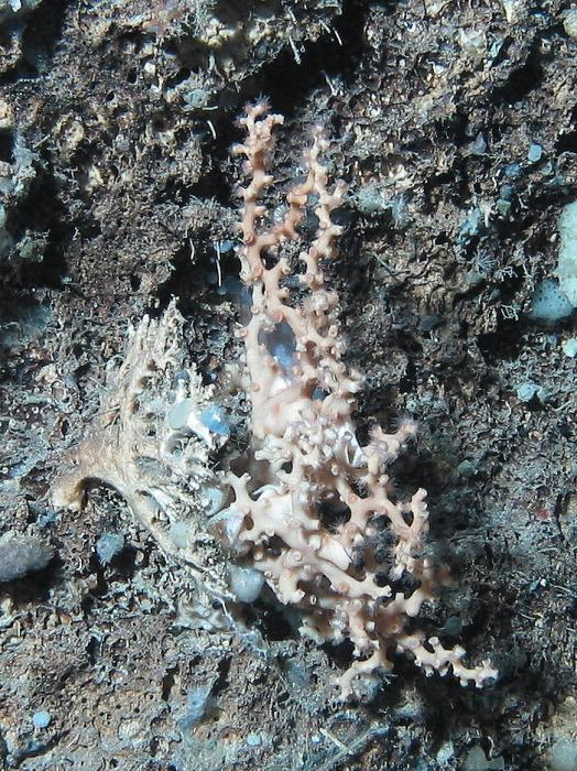 Stony coral of the species Solenosmilia variabilis.